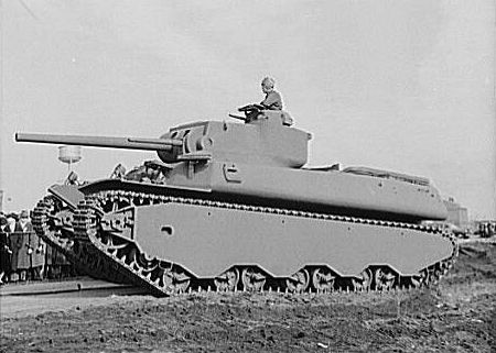 A U.S. Army M6 heavy tank in December 1941. Original caption: "Delivery of the first heavy tanks. This is the new fifty-seven-ton tank, known as the M-1 in the initial demonstration. Notice that the gun turrets are on the top, making it possible for the tank to take advantage of irregular land, sheltering the lower part and shooting from revolving turrets on top. In the turret are three-inch guns and a thirty-seven-millimeter antiaircraft gun."